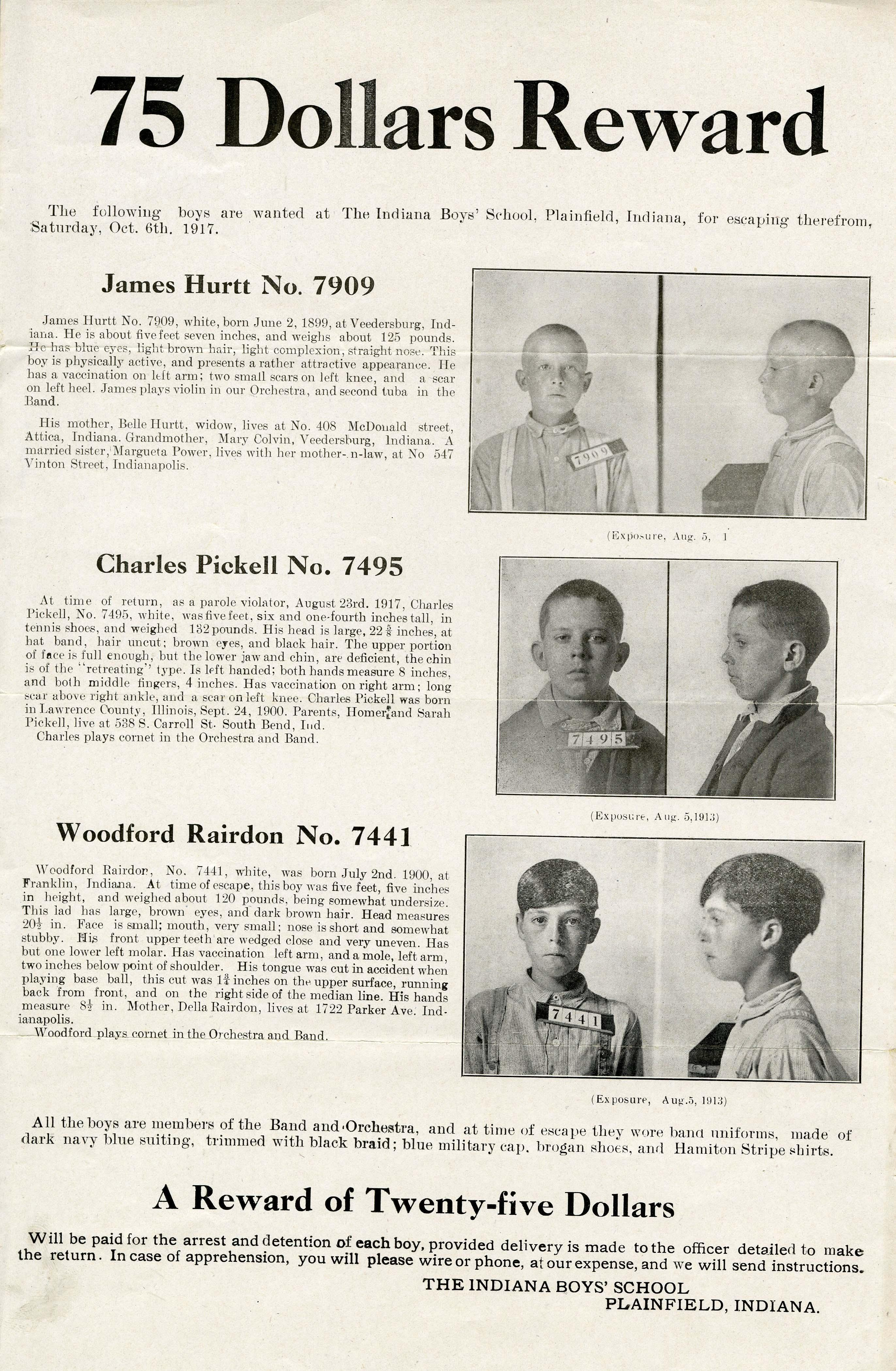 Wanted poster of runaway boys from Plainfield, Indiana's boys' school